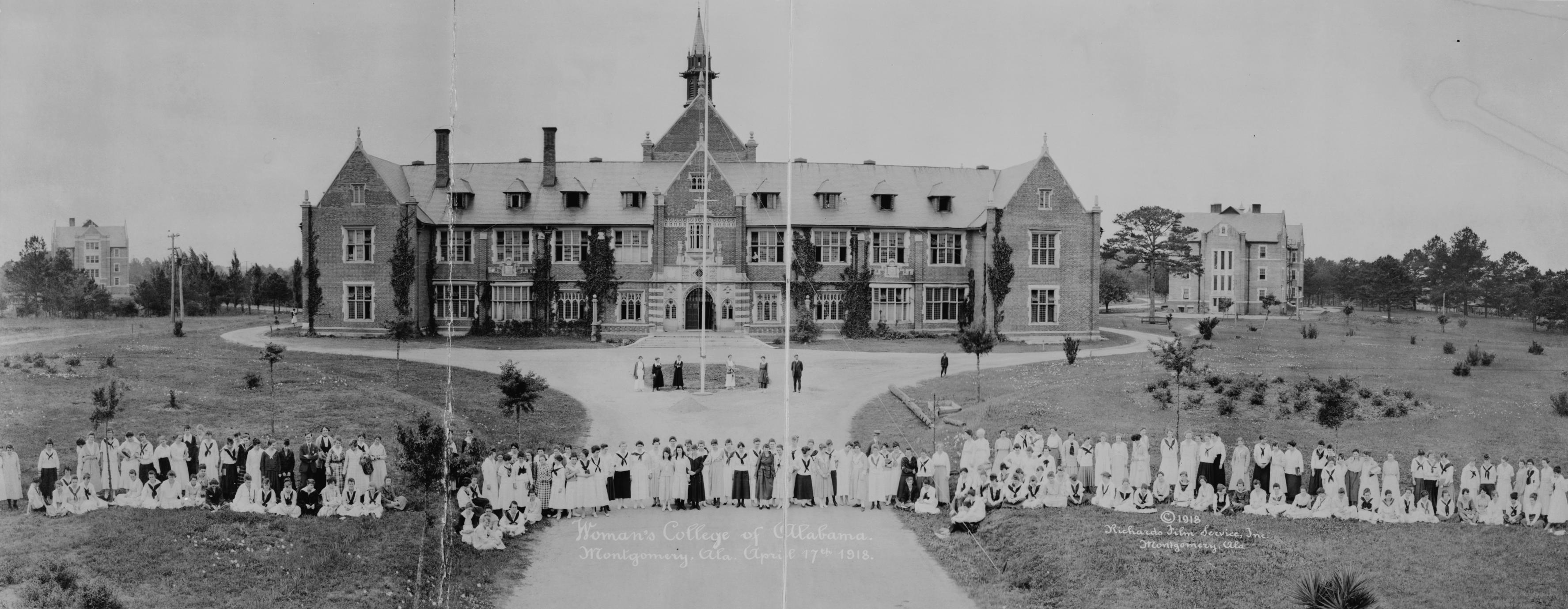 Woman's College of Alabama (now Huntingdon College), Montgomery Ala., April 17th, 1918